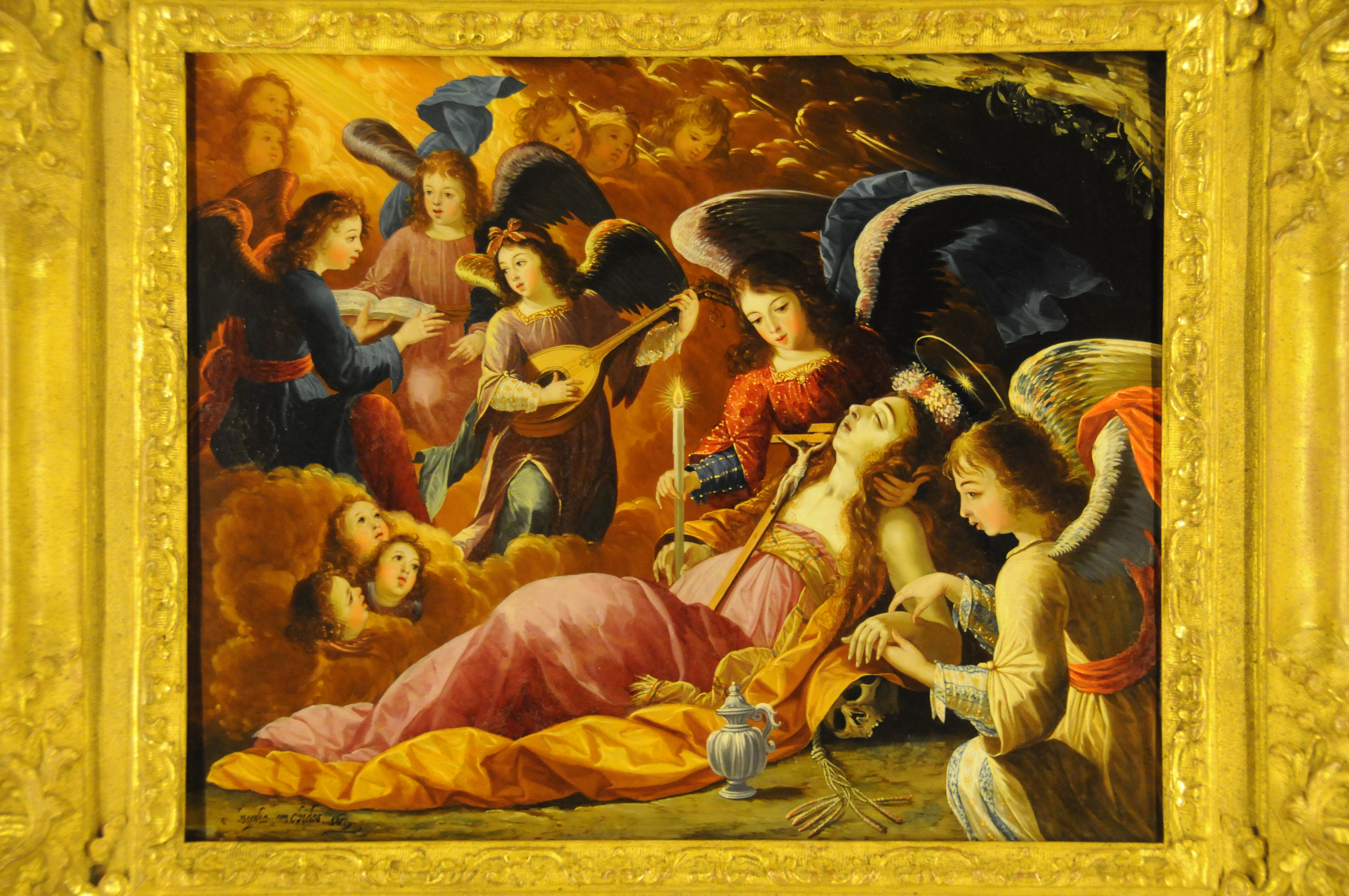 The Penitent Magdalene Comforted by Angels, signed and dated 167(9), oil on copper, 34 by 42.2 cm. Collections of Museu da Misericórdia do Porto, Portugal.